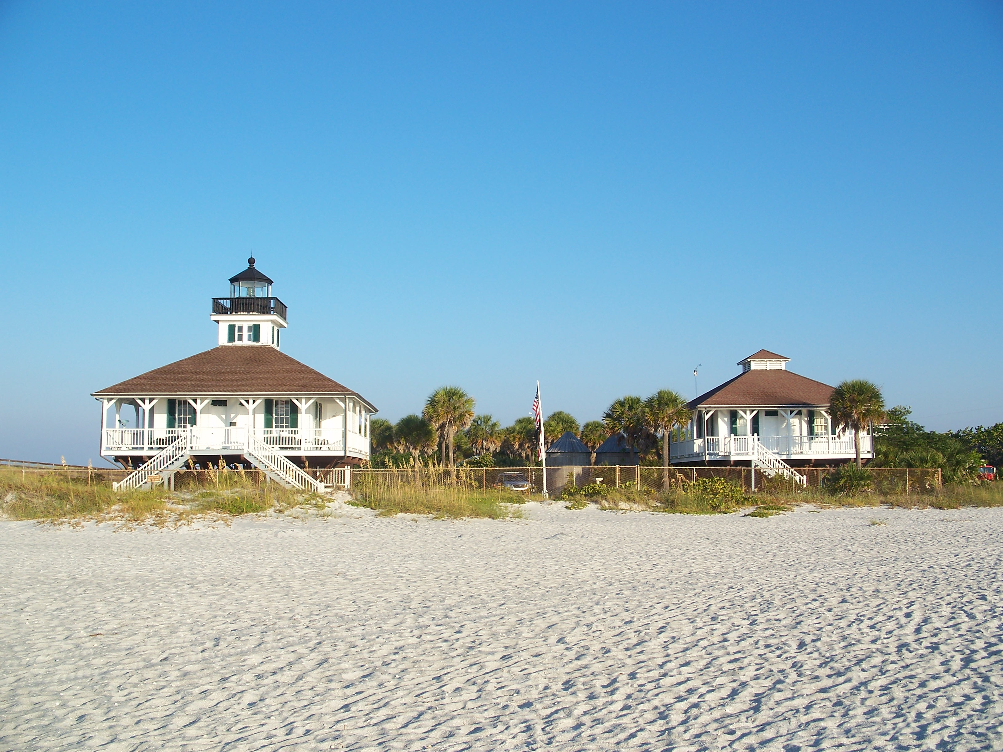 Gasparilla Island State Park: Gasparilla Island Lights